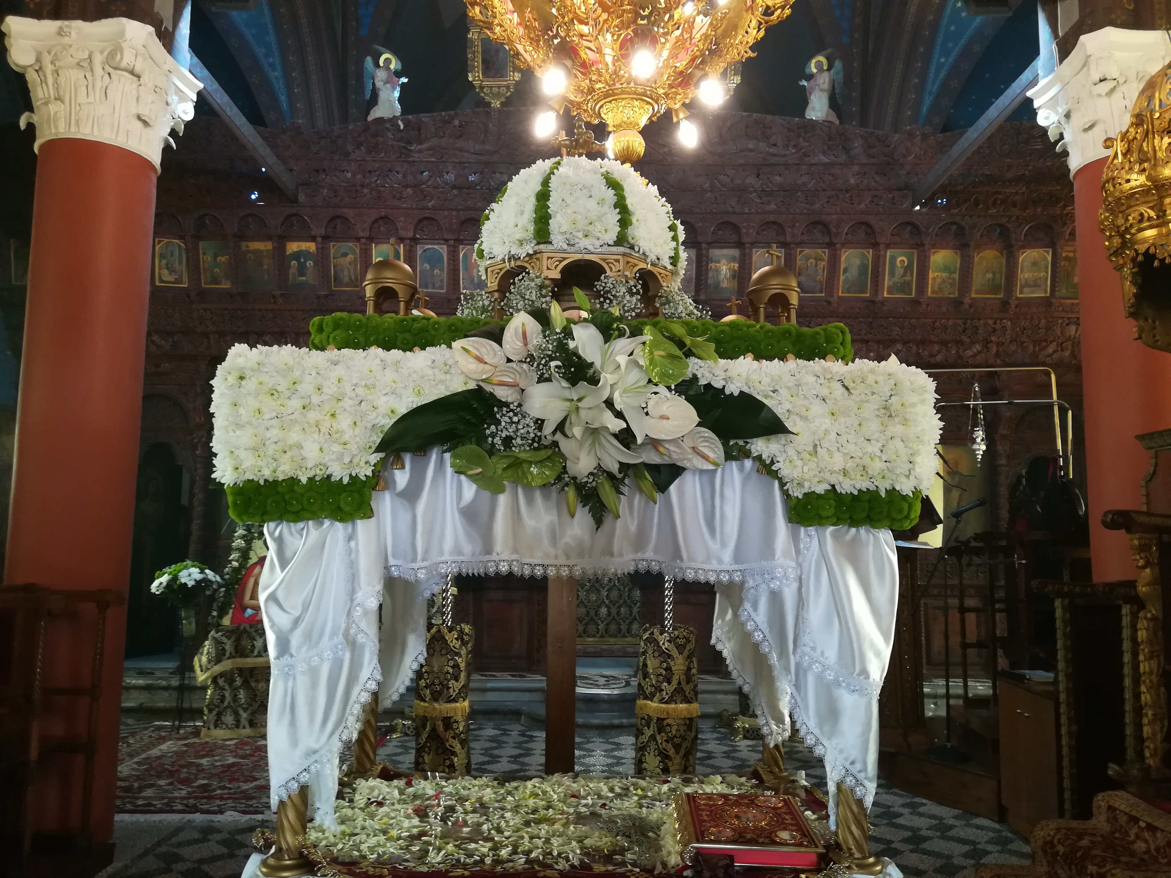 Soroni Rhodes, Church